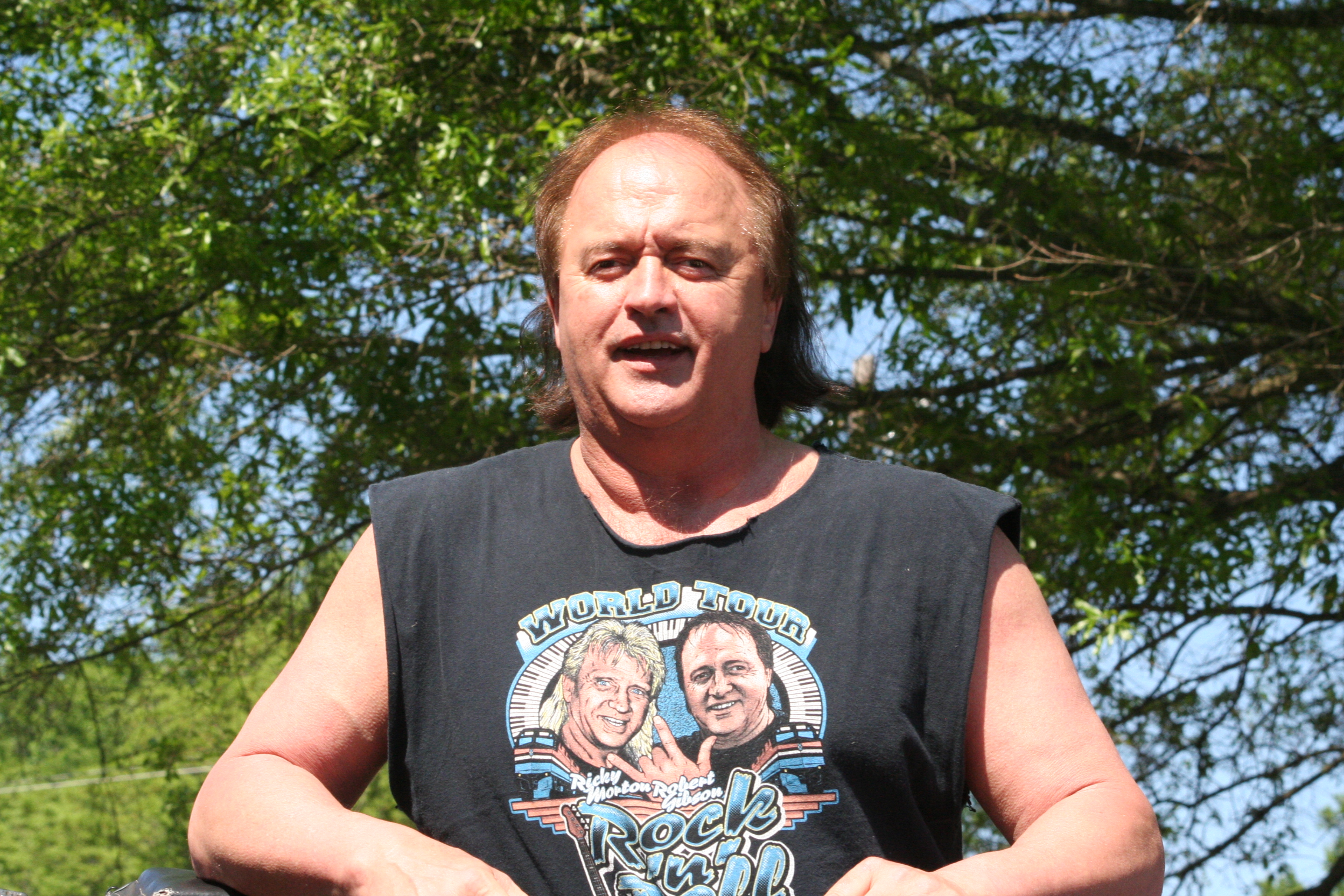 Robert Gibson at the Fort Mill Strawberry Festival in May 2014.